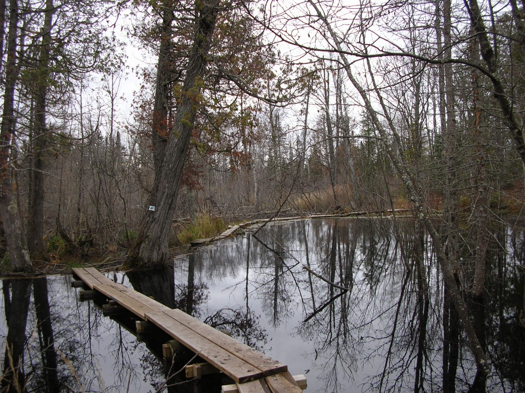 Photo by Greg Seitz